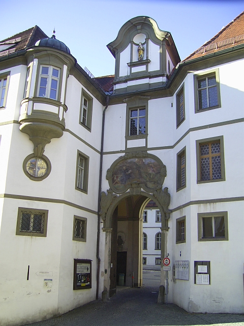 Photo taken by Myke Rosenthal-English for St Mang Basilica Website